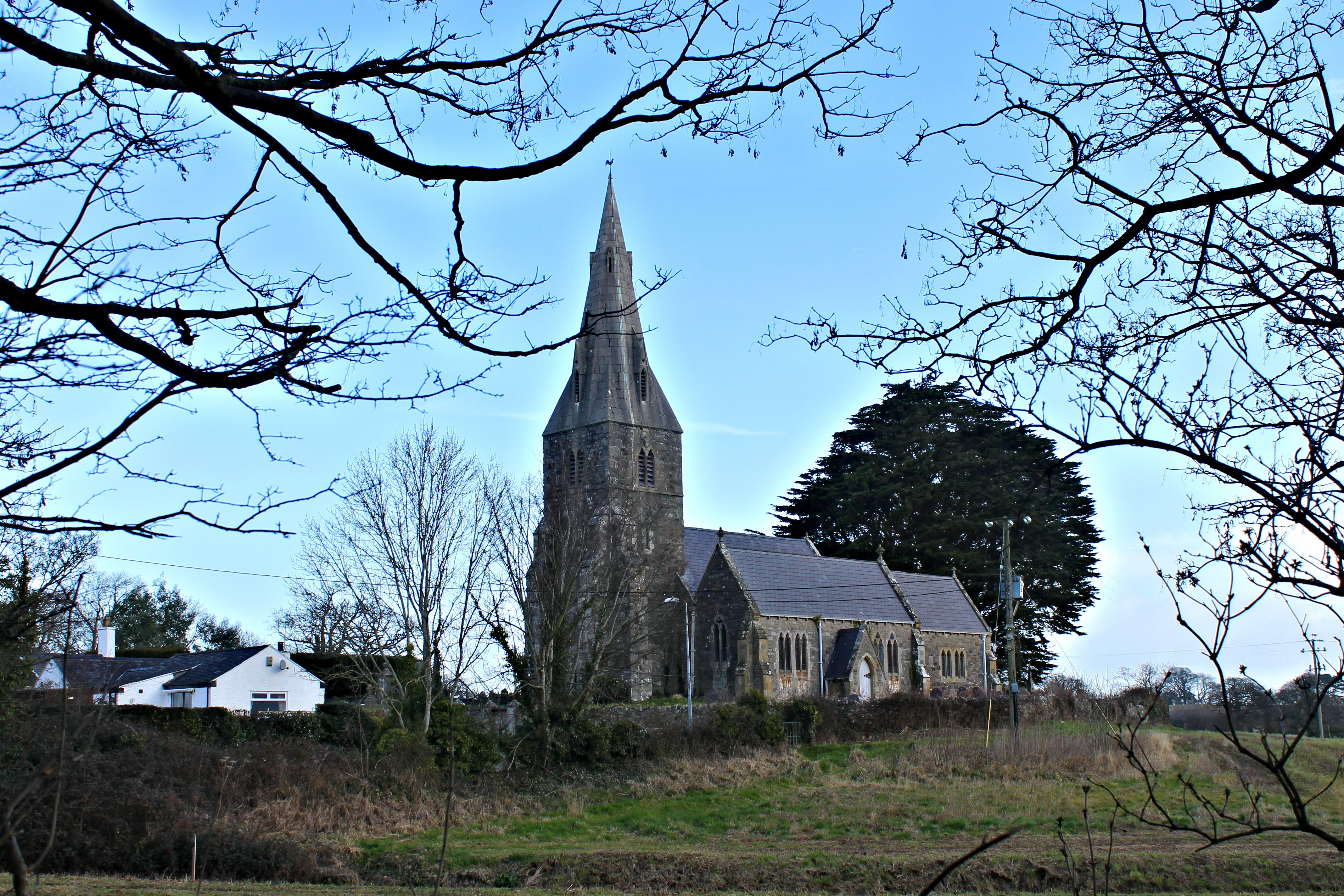 St Catherine's Church, Beaumaris, Anglesey, Wales. Grade: II Date Listed: 20 February 1978 Cadw Building ID: 5705